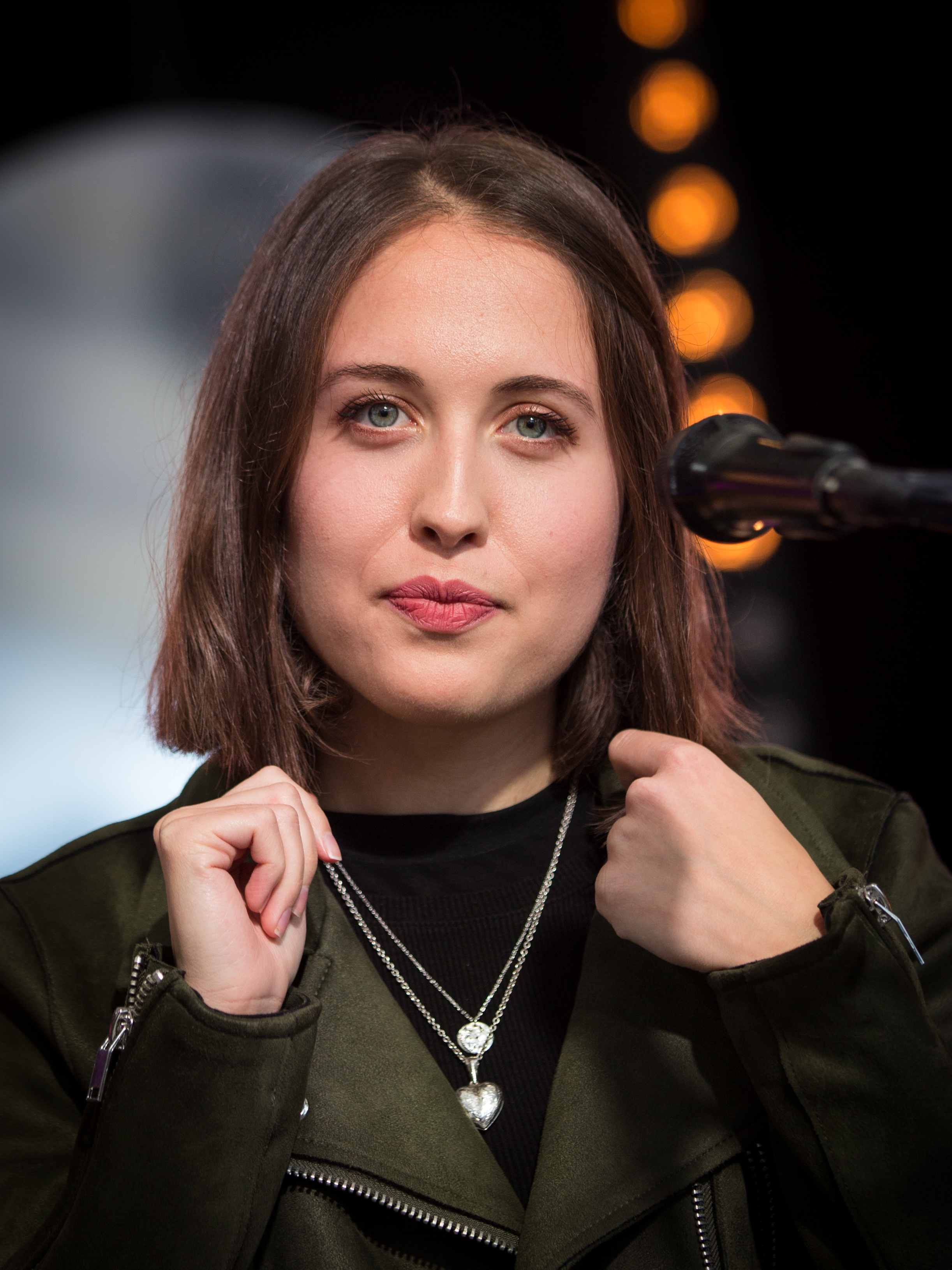 Canadian singer-songwriter Alice Merton at the SWR3 New Pop Festival 2017